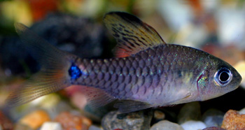 Oreichthys umangii male